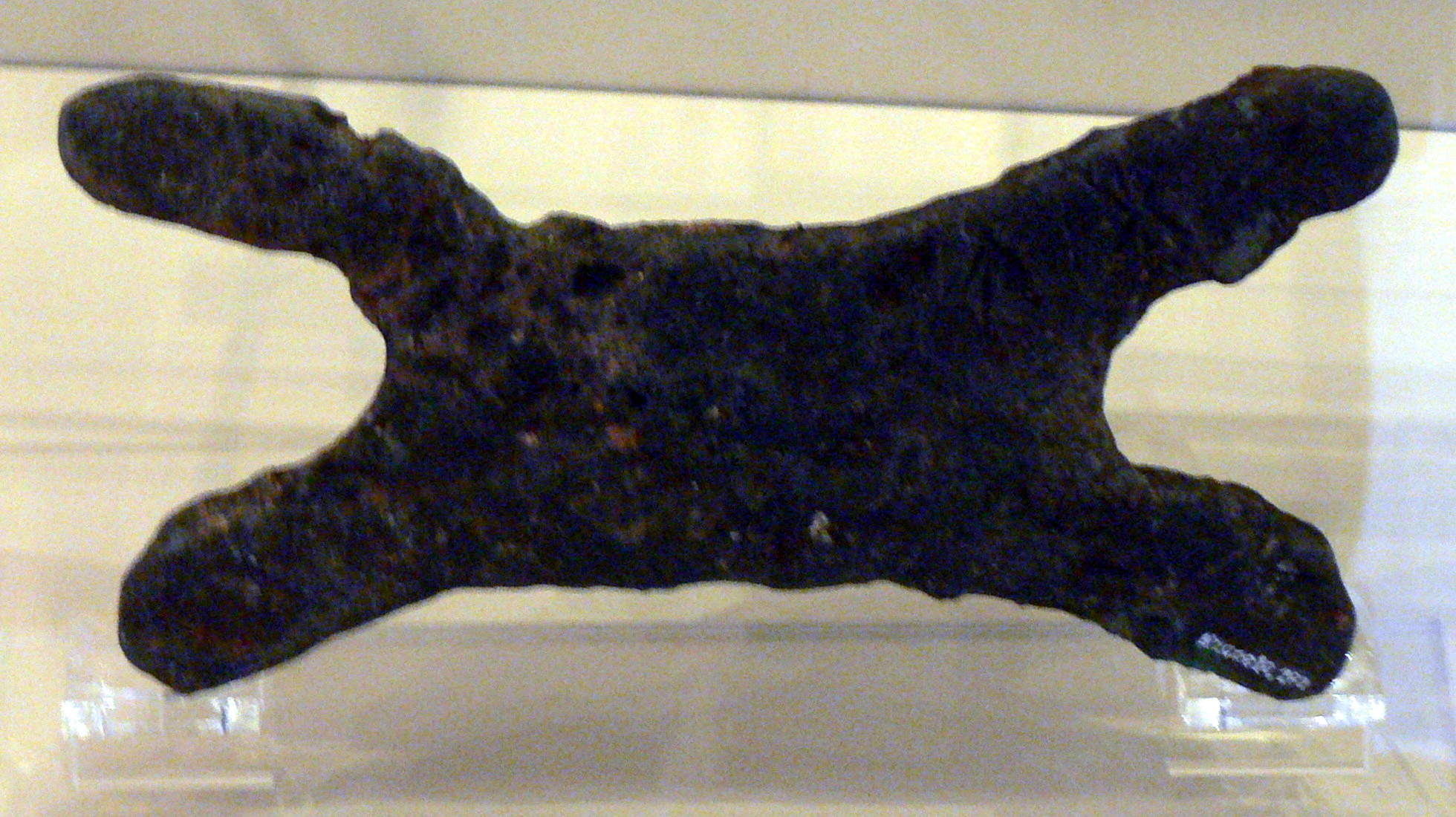 Nicosia ( Cyprus ). Leventio Municipal Museum: Copper ingot weighing a talent ( 12th century BC )